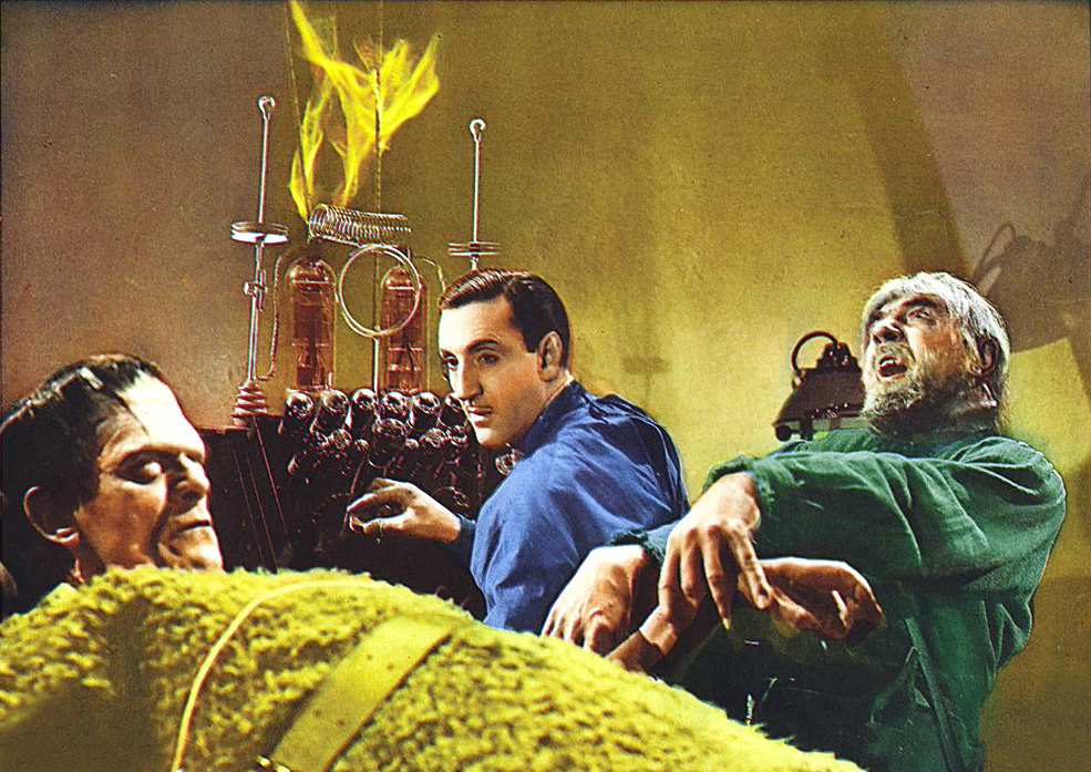 Cropped and edited lobby card for the 1939 film Son of Frankenstein, featuring Basil Rathbone, Boris Karloff and Bela Lugosi. Lobby card produced in 1953 for the release of Bride of Frankenstein and Son of Frankenstein. This image is assumed to be in the public domain, as no copyright notice is in evidence.